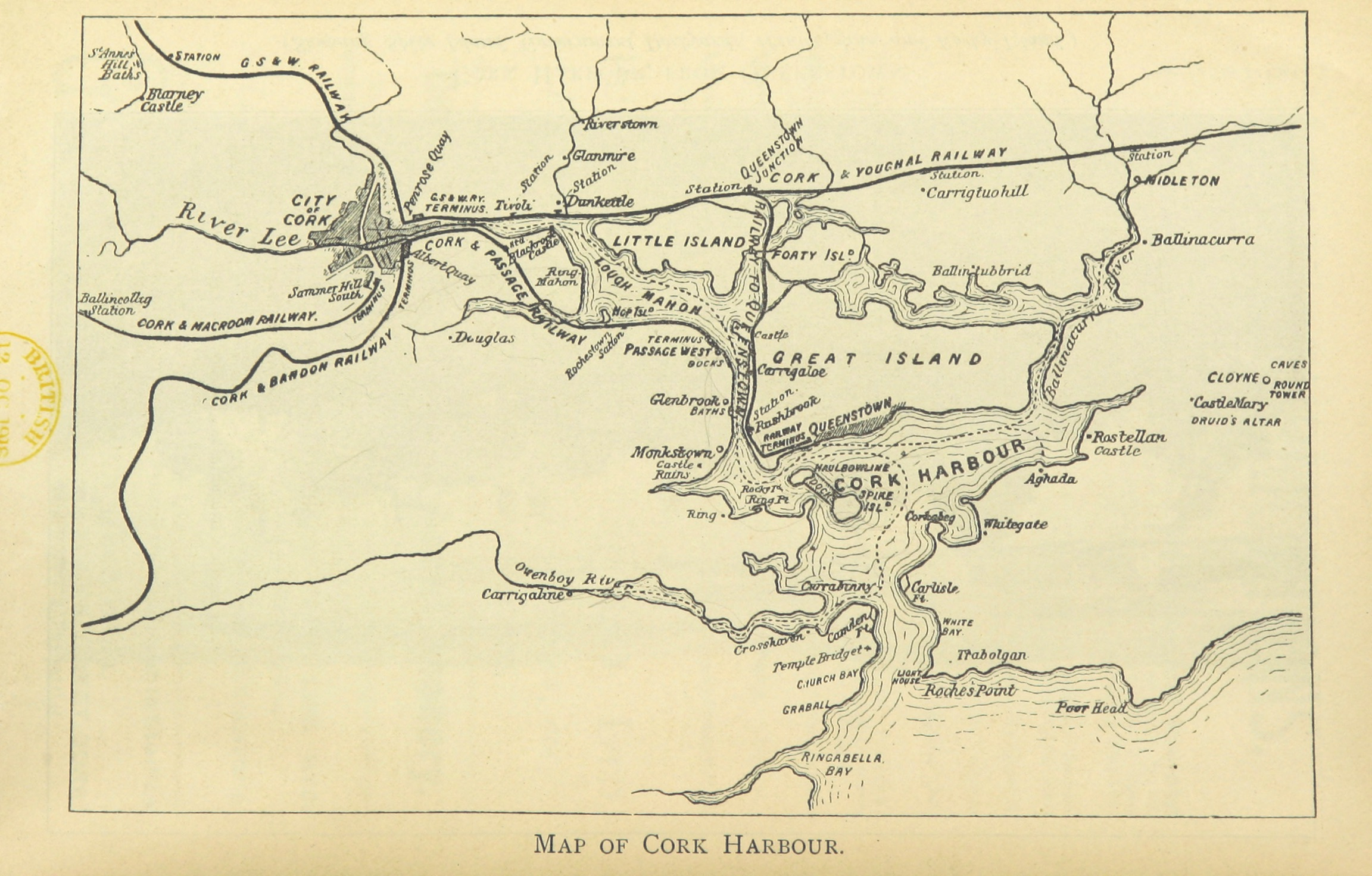 View this map on the BL Georeferencer service. Image taken from: Title: "Queenstown and the Places around Cork Harbour. A handy guide, etc" Shelfmark: "British Library HMNTS 10390.f.36." Page: 8 Place of Publishing: Cork Date of Publishing: 1895 Publisher: Guy & Co. Issuance: monographic Identifier: 000731529 Explore: Find this item in the British Library catalogue, 'Explore'. Open the page in the British Library's itemViewer (page image 8) Download the PDF for this book Image found on book scan 8 (NB not a pagenumber)Download the OCR-derived text for this volume: (plain text) or (json) Click here to see all the illustrations in this book and click here to browse other illustrations published in books in the same year. Order a higher quality version from here.